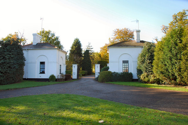 Entrance to Hamels Park This leads to a 18th century mansion, which since 1976, along with the grounds has become the East Herts Golf Club.